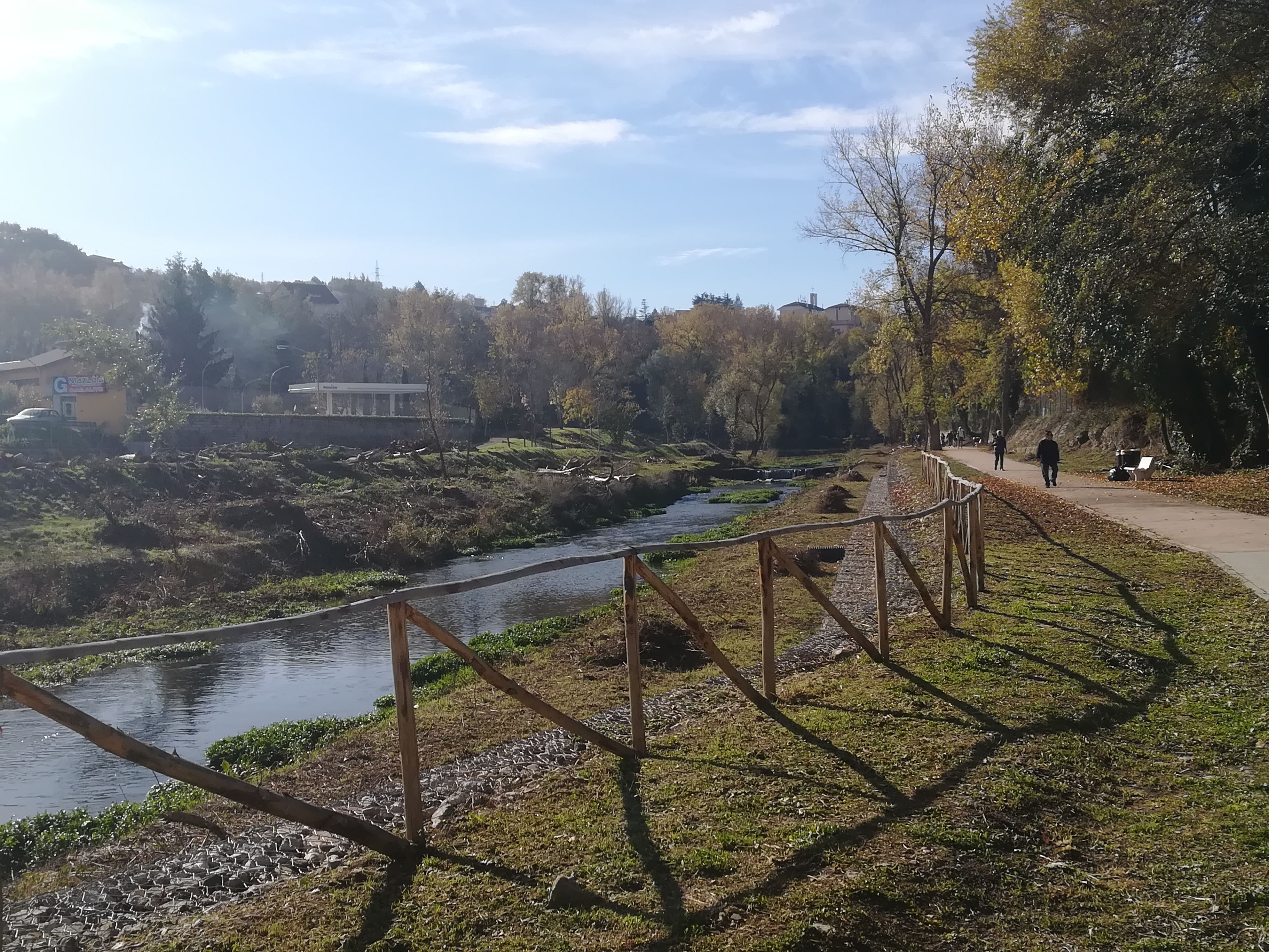 Basento riverside Park - Potenza, Italy